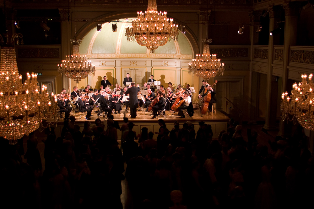 Oslo Operaball 2007 Oslo Symphony Orchestra